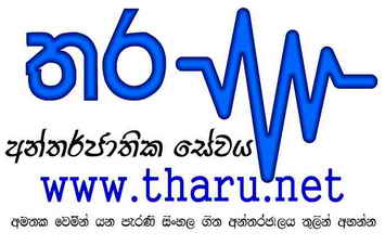 Tharu Logo in white